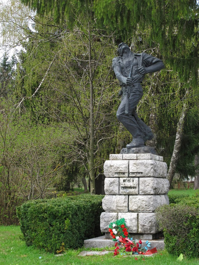 Monument to the fallen Yugoslav partisans' fighters in Jasenak.